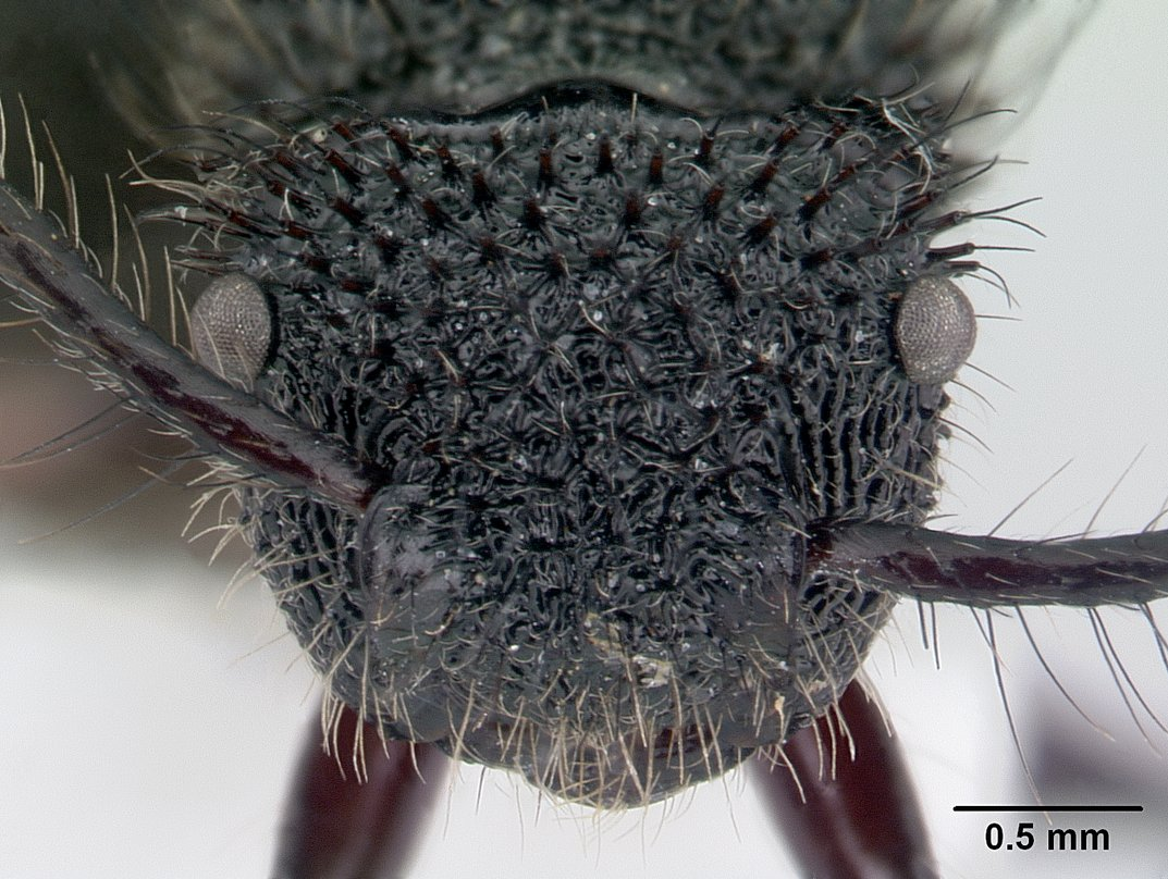 Head view of ant Echinopla melanarctos specimen casent0178497.